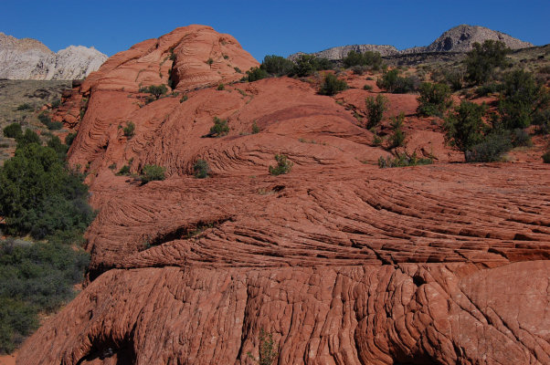 Petrified sand dunes in Snow Canyon, Utah.